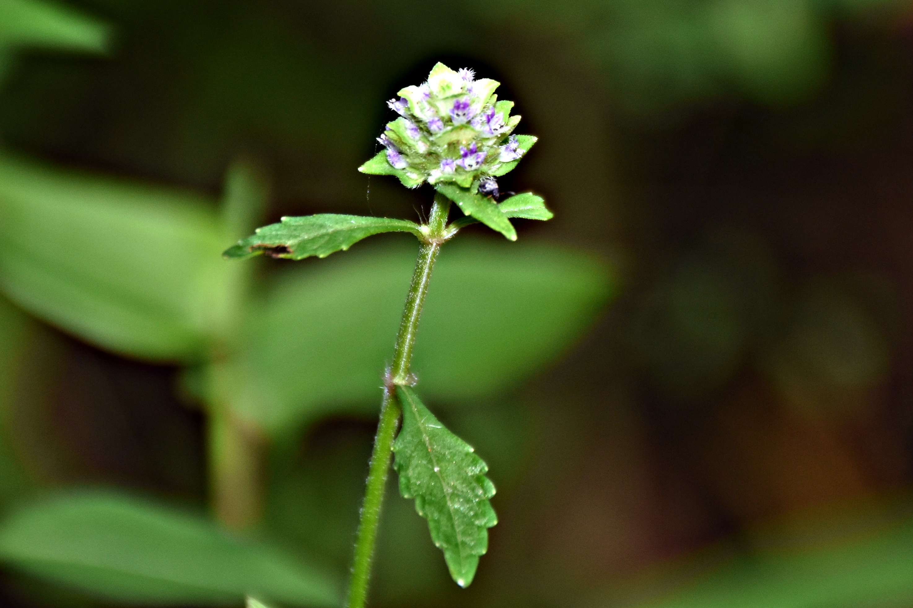 At Neeliyarkottam